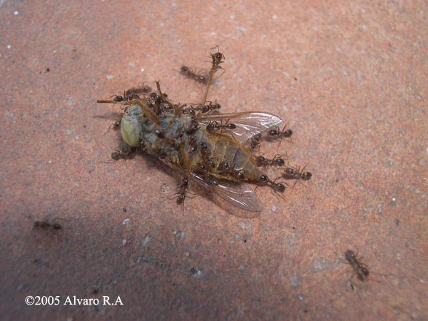 Argentine ant (Linepithema humile) is an invasive species from northern Argentina. It was introduced into Europe and North America by humans and is a huge environmental problem due to strong competition. (Thanks, Roberto.)